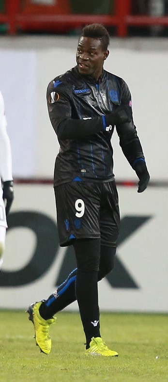 Mario Balotelli